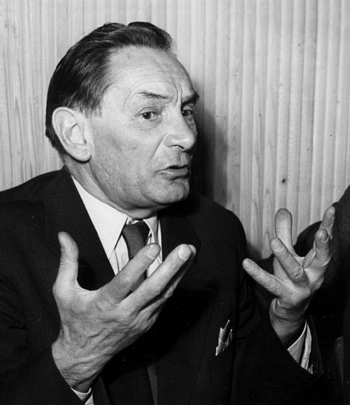 The Russian director Vsevolod Pudovkin and the Italian one Alessandro Blasetti discussing over lunch at a trattoria. February 1951